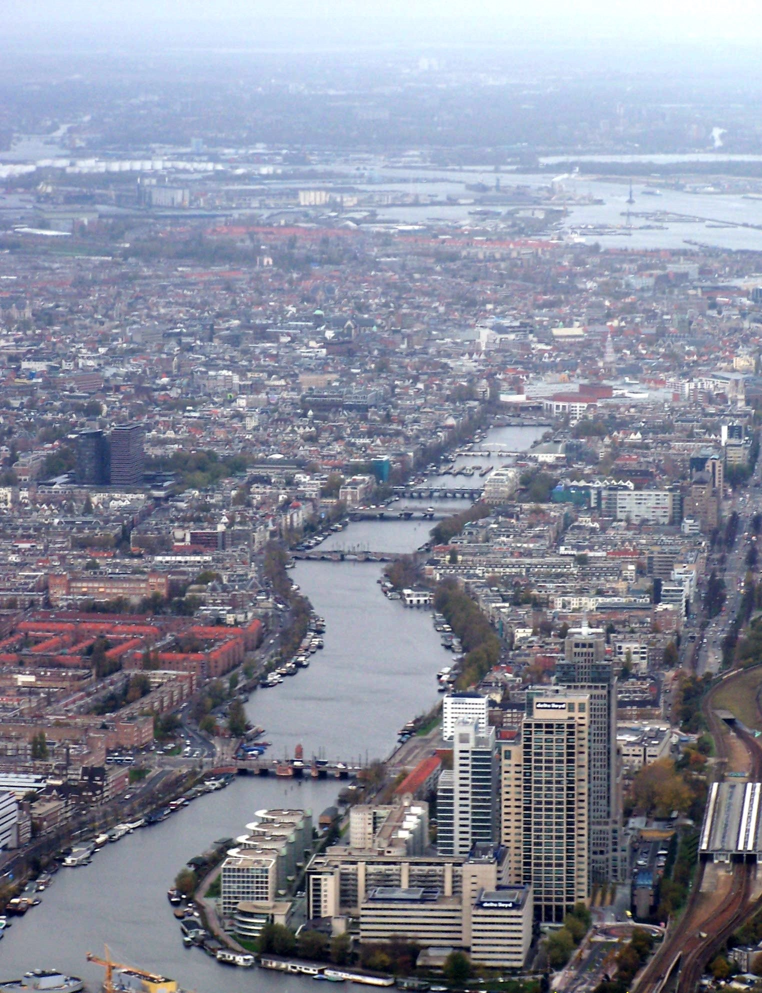 Amstel in Amsterdam, seen from the south